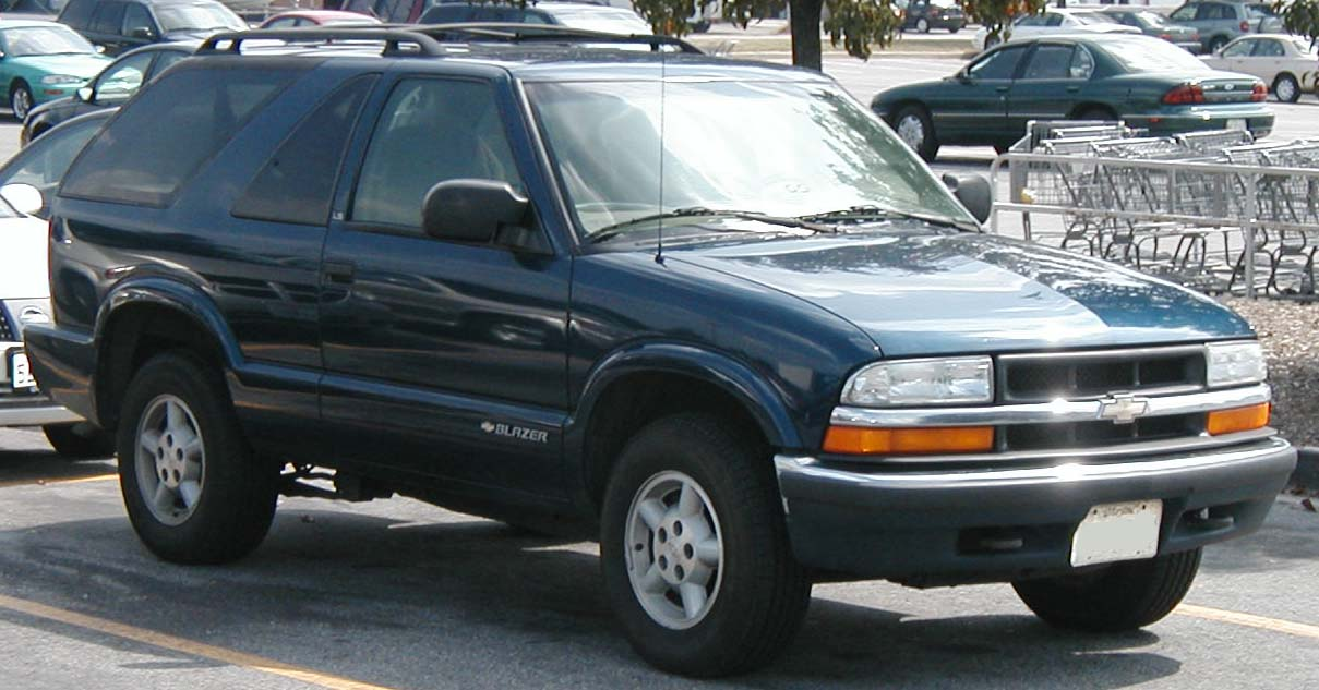 1995-2005 Chevrolet S-10 Blazer 2-door photographed in USA.